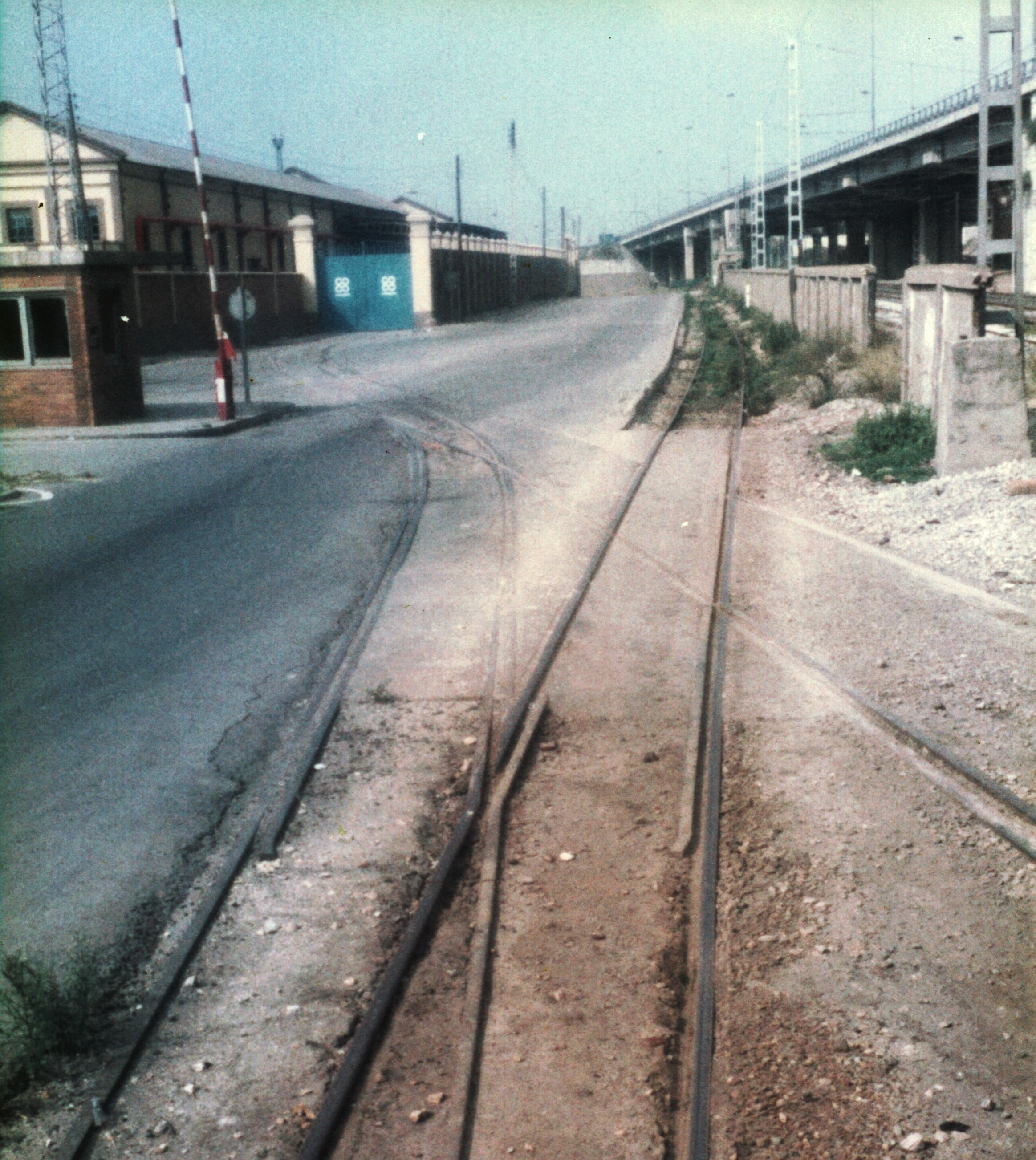 Entrance track to the Barcelona-El Port station of Ferrocarrils de la Generalitat de Catalunya, with the start of the CAMPSA industrial siding on the left. You can see the intersection of a broad gauge RENFE track.